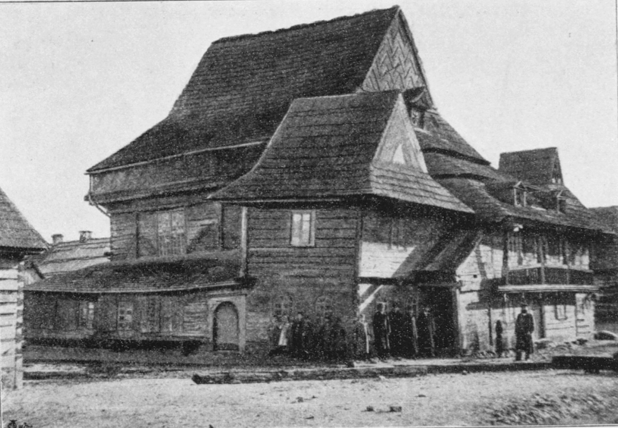 Picture of the Zabłudów synagogue. Taken by Mathias Bersohn for his documentation of wooden synagogues in Poland.